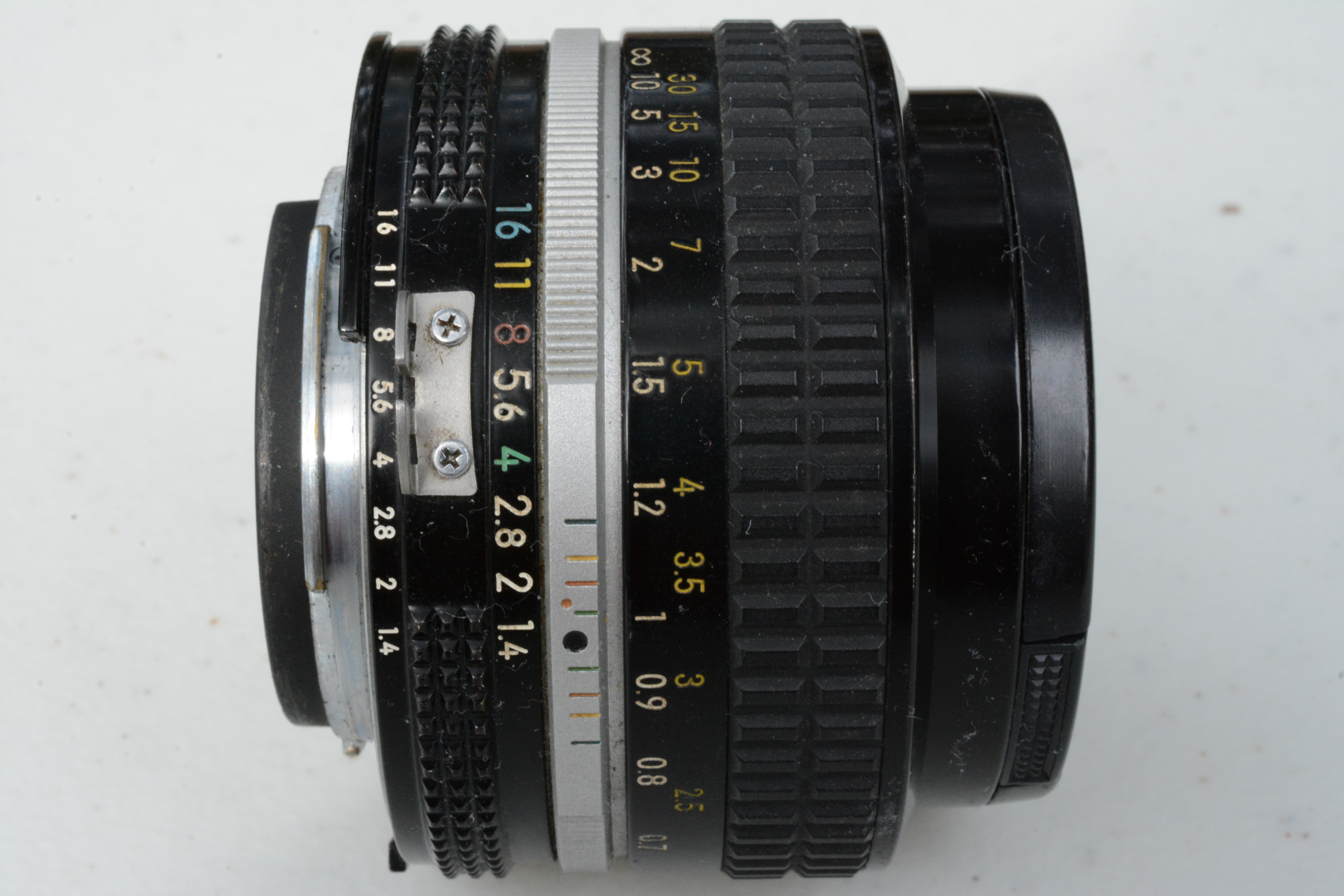 Nikon 50mm f/1.4 manual focus lens